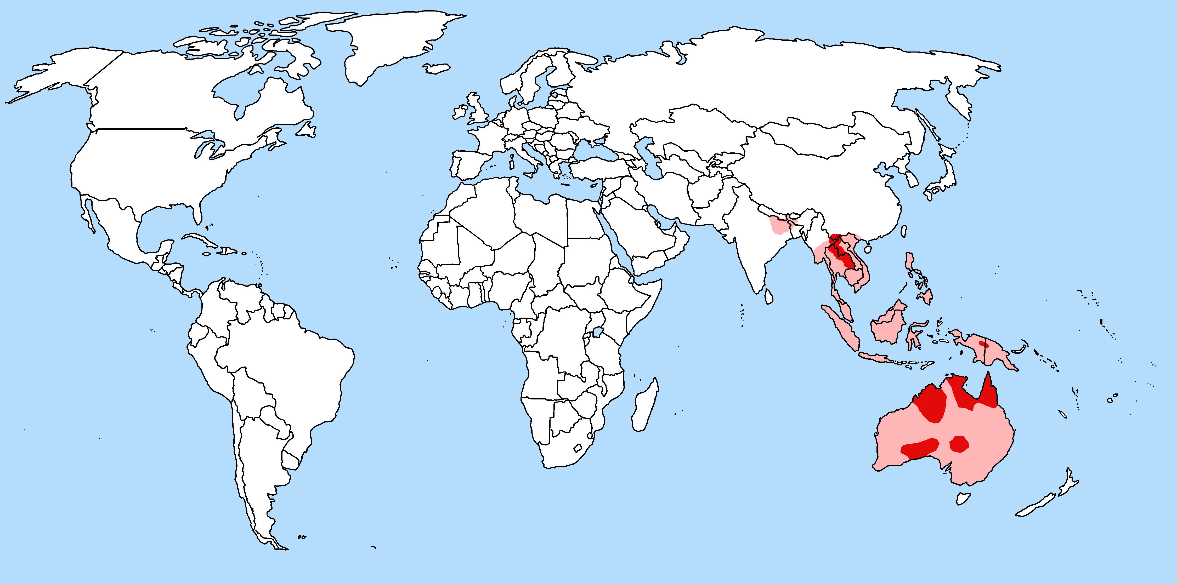 Geographic range of Canis lupus dingo